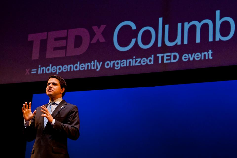 Pedro De Abreu at TEDxColumbiaSC